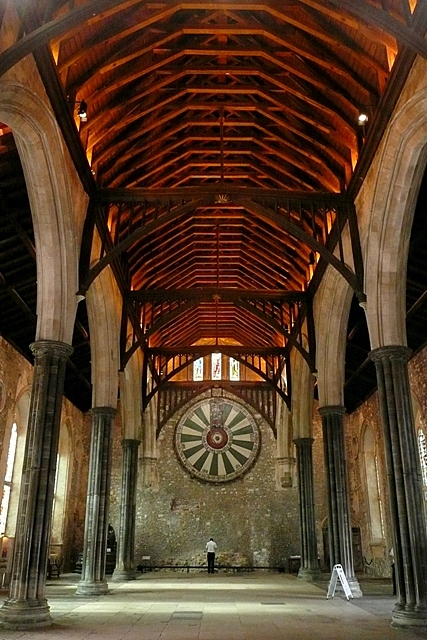 The Great Hall, Winchester Castle. This is Henry 3rd's Great Hall, the only significant remains of Winchester Castle, built in 1222. The room is a double cube, measuring 110 feet long by 55 feet wide by 55 feet tall. The roof was reconstructed as seen after a fire of about 1305. On the west wall, is the round table, constructed probably in Edward 1st's reign in about 1280, and painted in the early part of Henry 8th's reign in about 1510. For a closer picture see 1540331